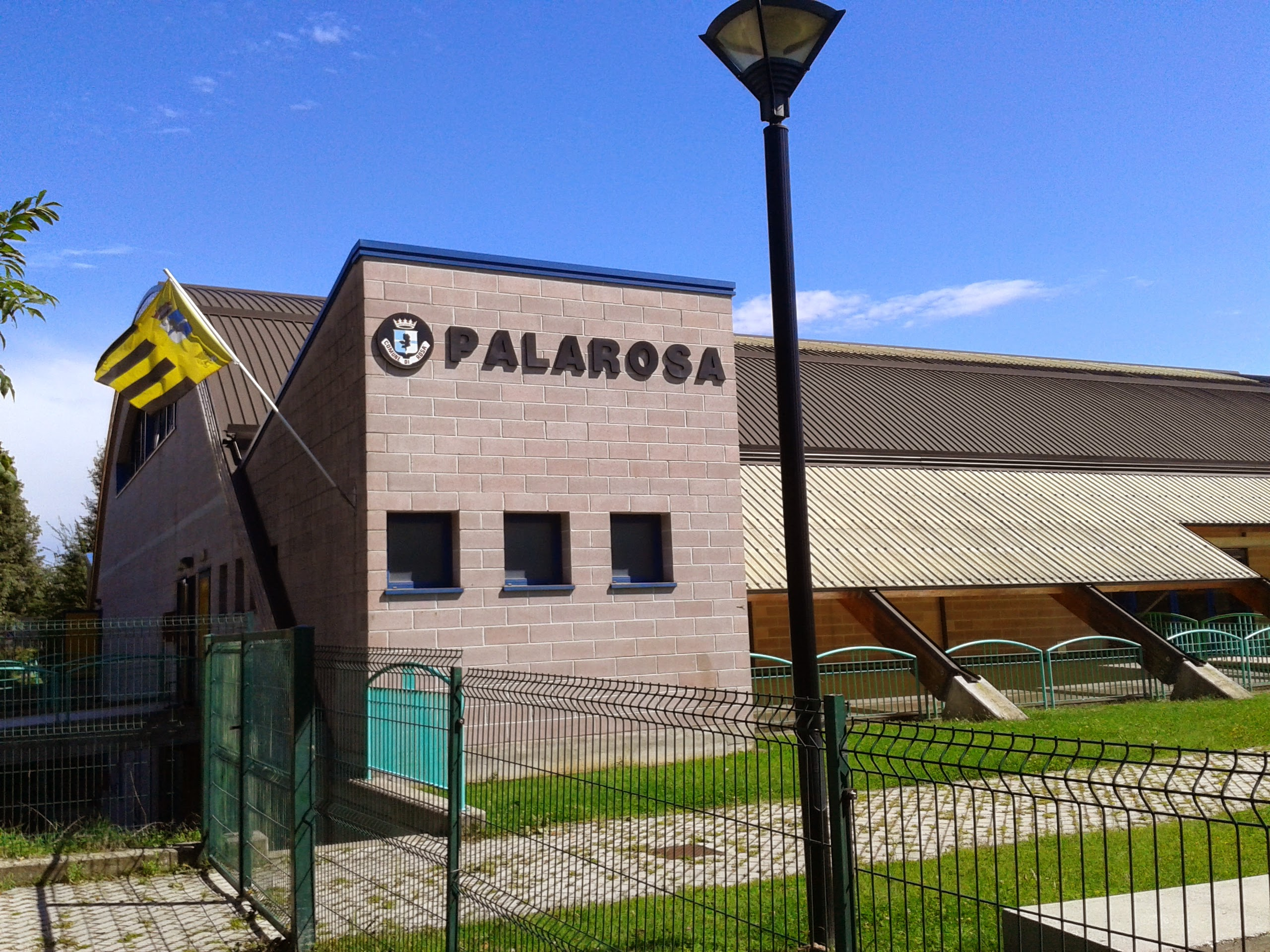 gym PalaRosà